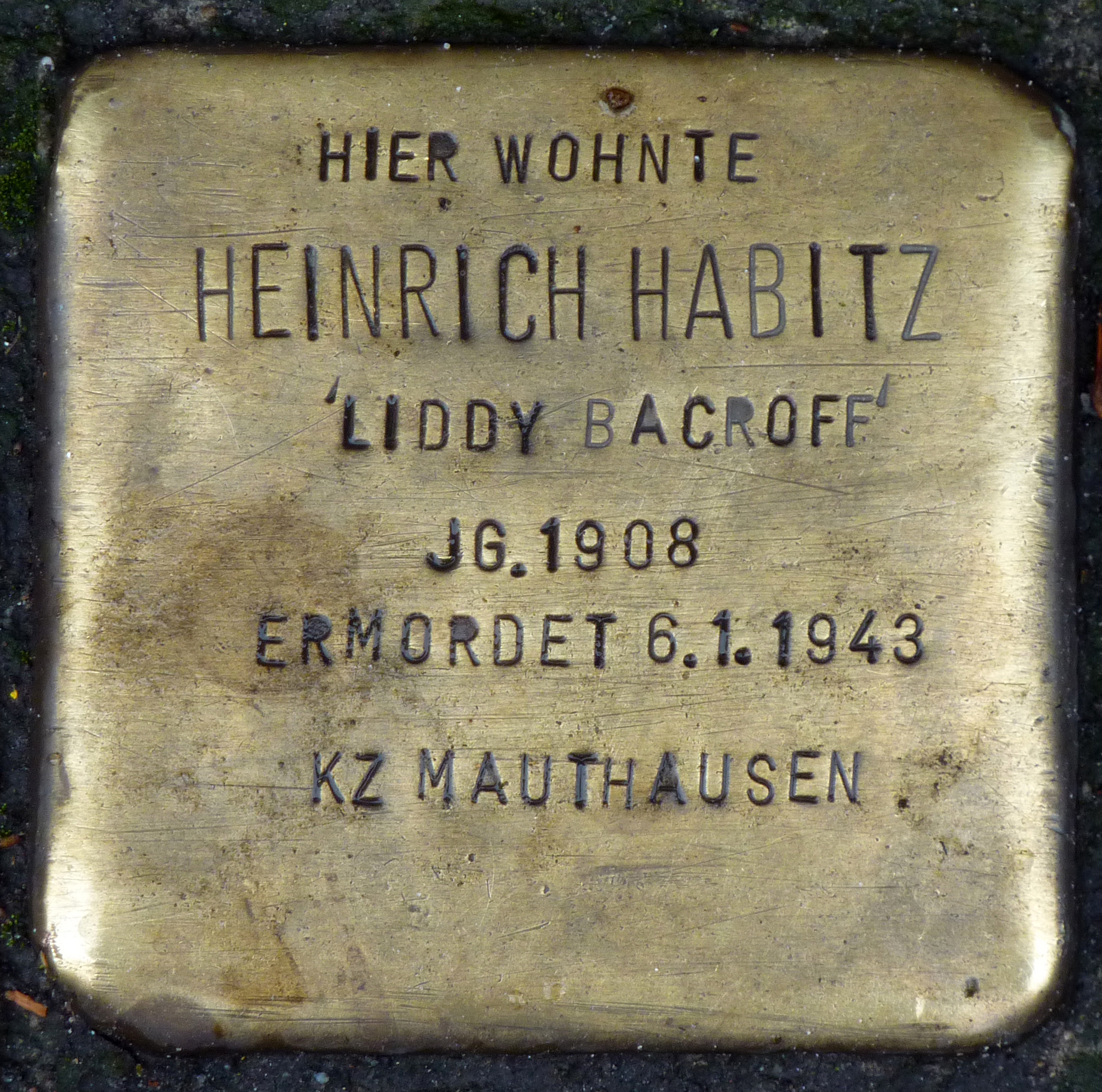 Stolperstein for Heinrich Habitz "Liddy Bacroff" located in front of the house at Simon-von-Utrecht-Straße 79, Hamburg.